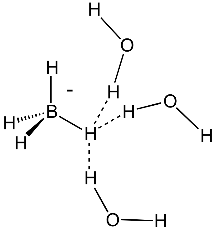 Dihydrogen bonding from water to borohydride image copied from ChemRev 2001, p 1964